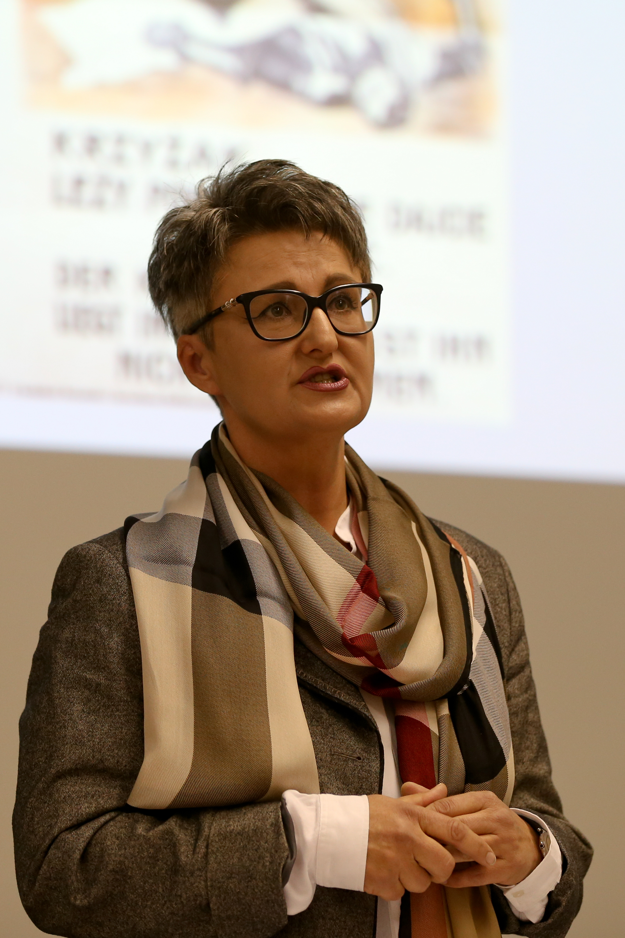 Izabela Surynt - historian.